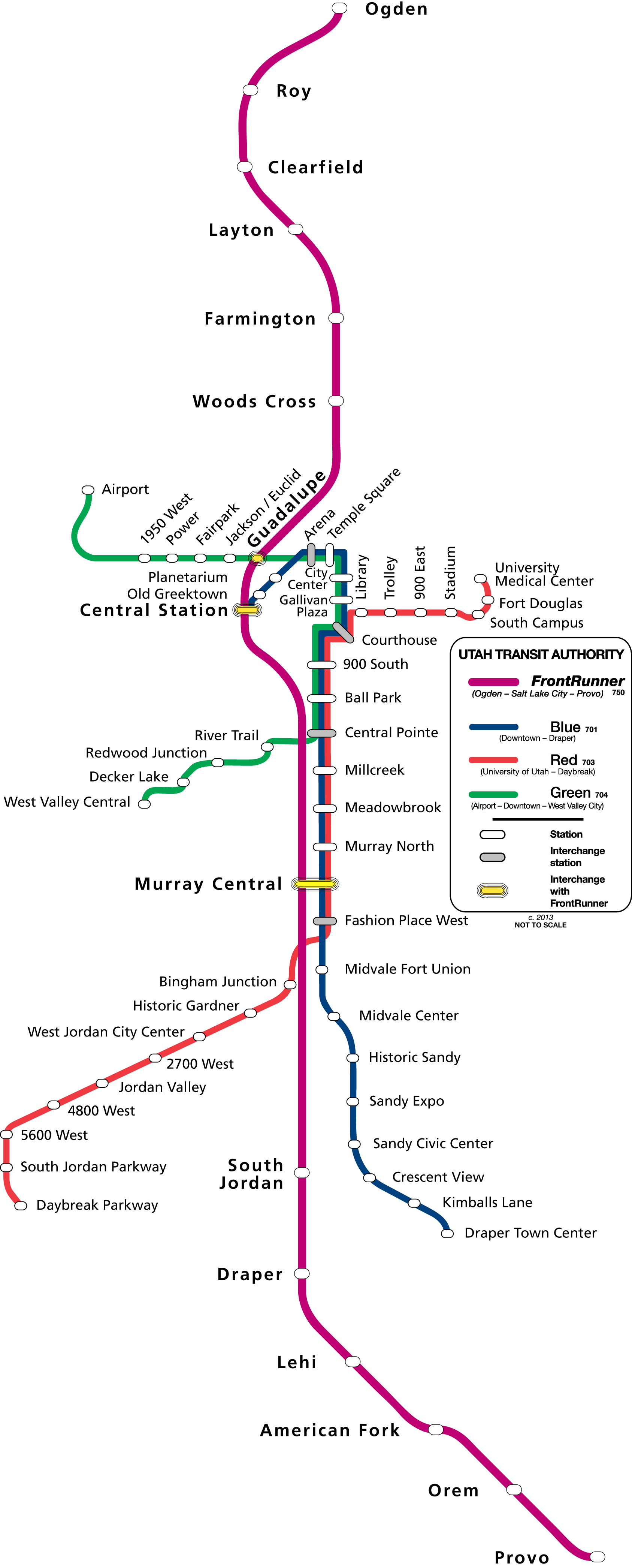 Map of Trax/FrontRunner circa 2013. This is how the system will look once the Draper, airport, and Provo extensions finish.